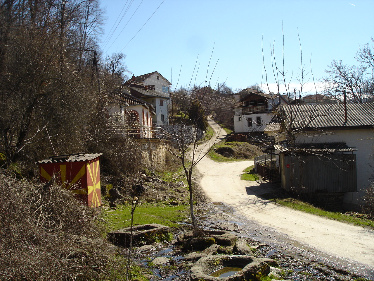 village of Osinchani in Studeničani Municipality, Macedonia